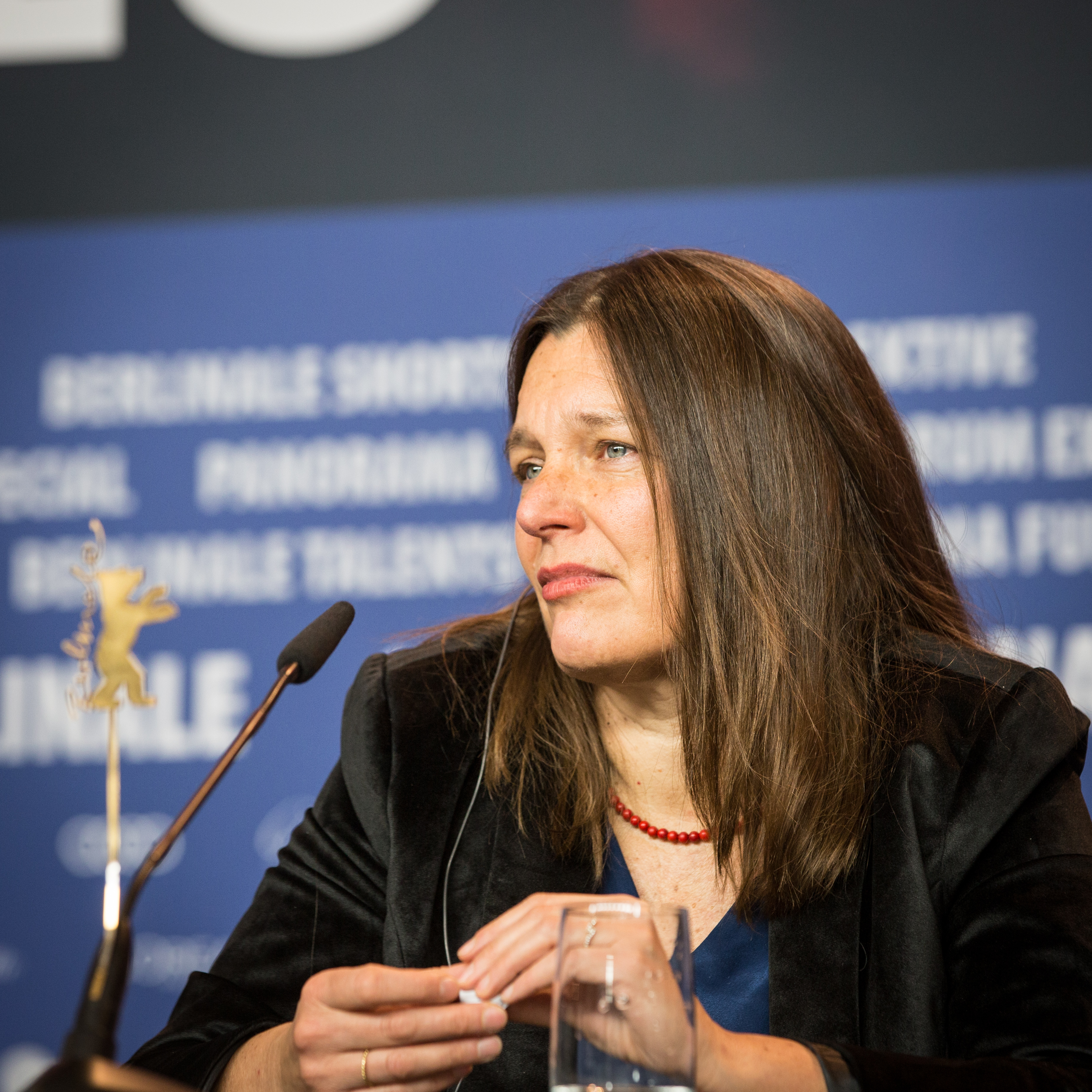 Film editor Beatrice Babin at the Berlinale 2018